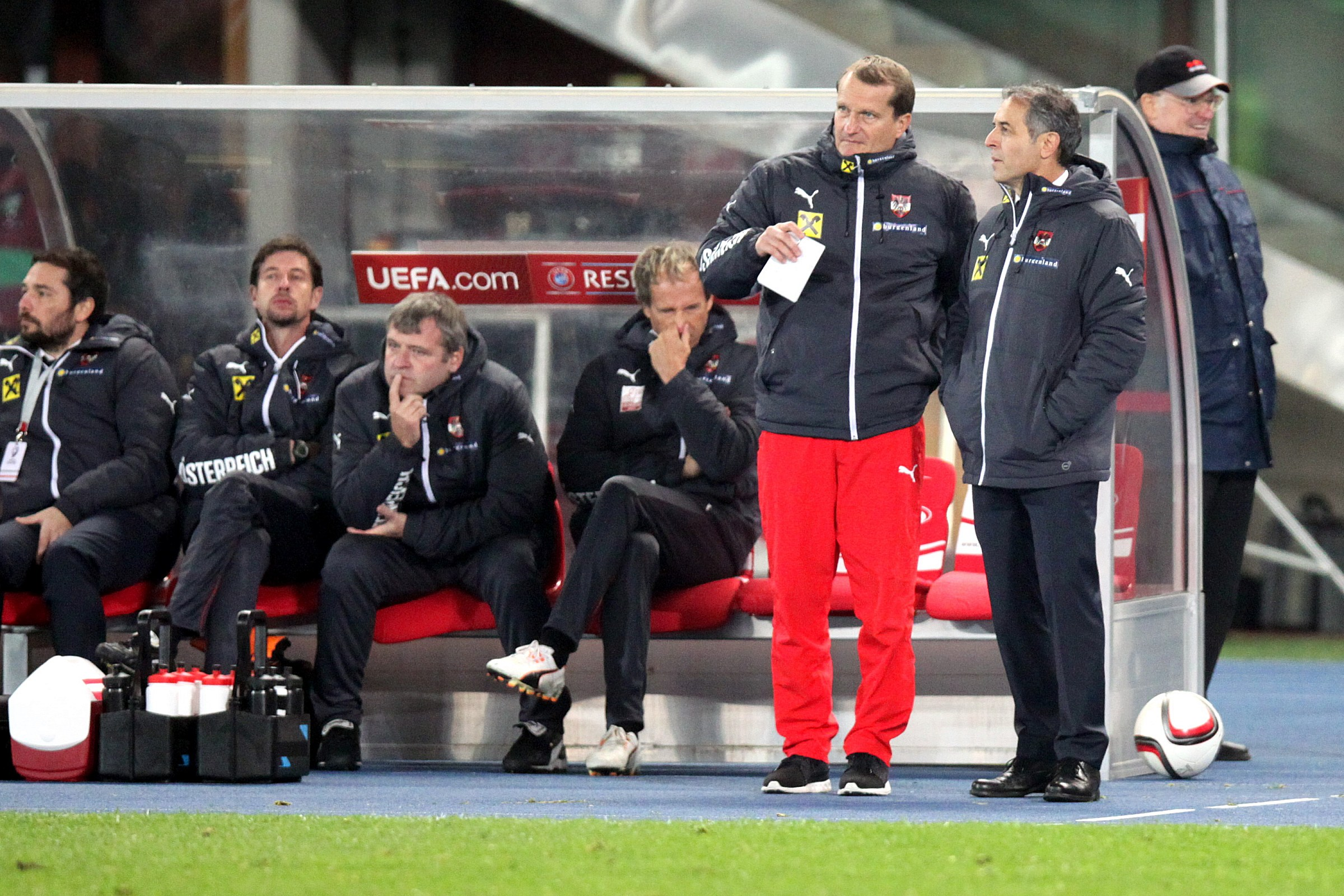 UEFA Euro 2016 qualifying, Group G – Austria (red shirts) vs. Liechtenstein (blue shirts) 3–0 (1–0) on 2015-10-12 in Ernst-Happel-Stadion, Vienna – The photo shows Marcel Koller (Teamchef of Austria national football team, 2nd from right) with Thomas Janeschitz (assisten coach of Austria national football team, 3rd from right) und Klaus Lindenberger (goalkeeper coach of Austria national football team, middle).